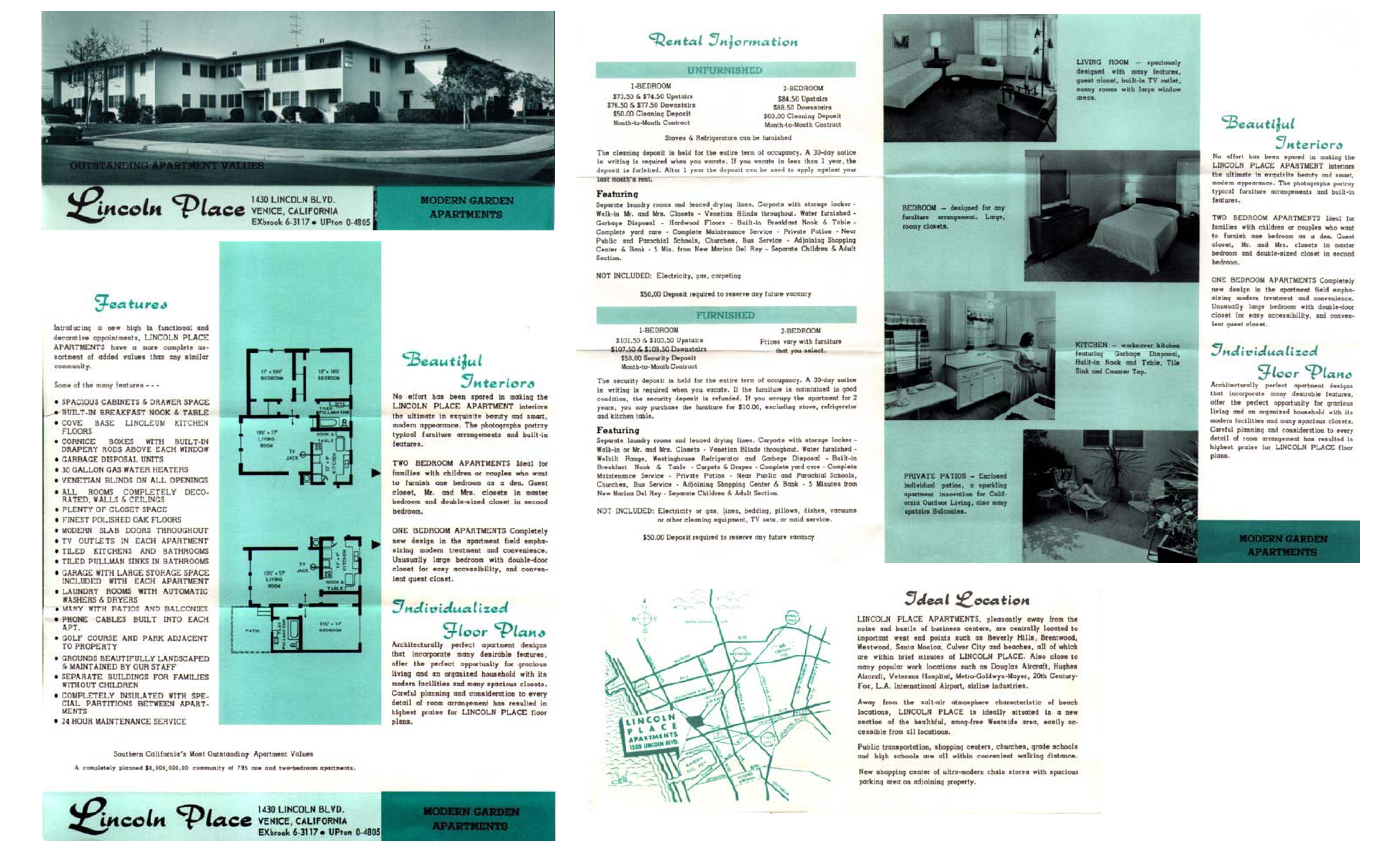 Scan of the original 1959 brochure for Lincoln Place Gardens. Information about the interiors, the neighborhood and pricing. Photo depicts exterior, floor plan diagrams, location map and photos.